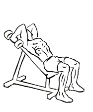 an exercise of triceps